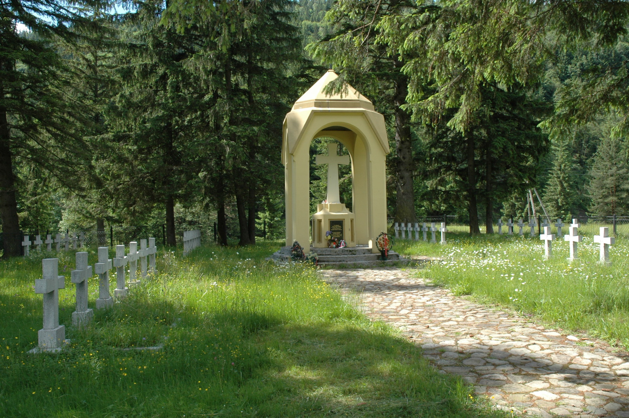 Austro-Hungarian World War I cemetery in Tatariv (Ivano-Frankivsk Oblast, Ukraine)